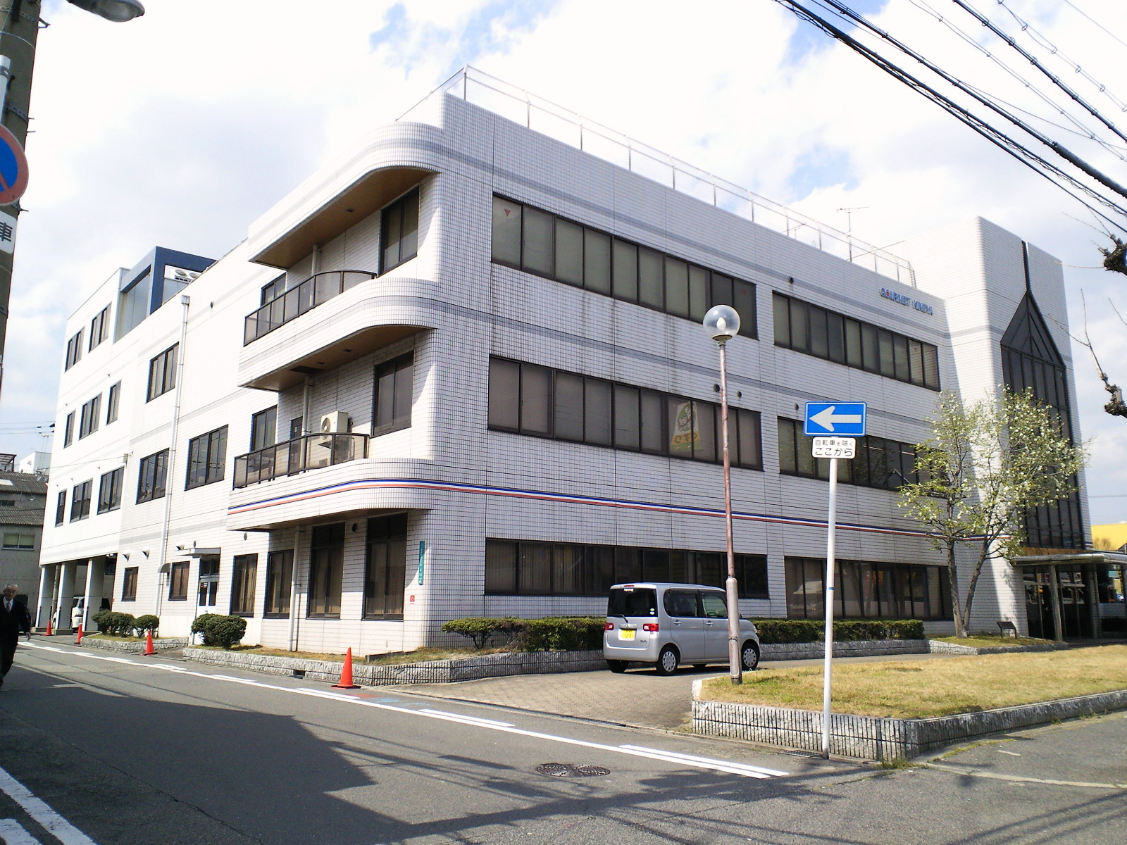 Headquarters of Gourmet Kineya Co., Ltd. in Suminoe-ku, Osaka, Japan